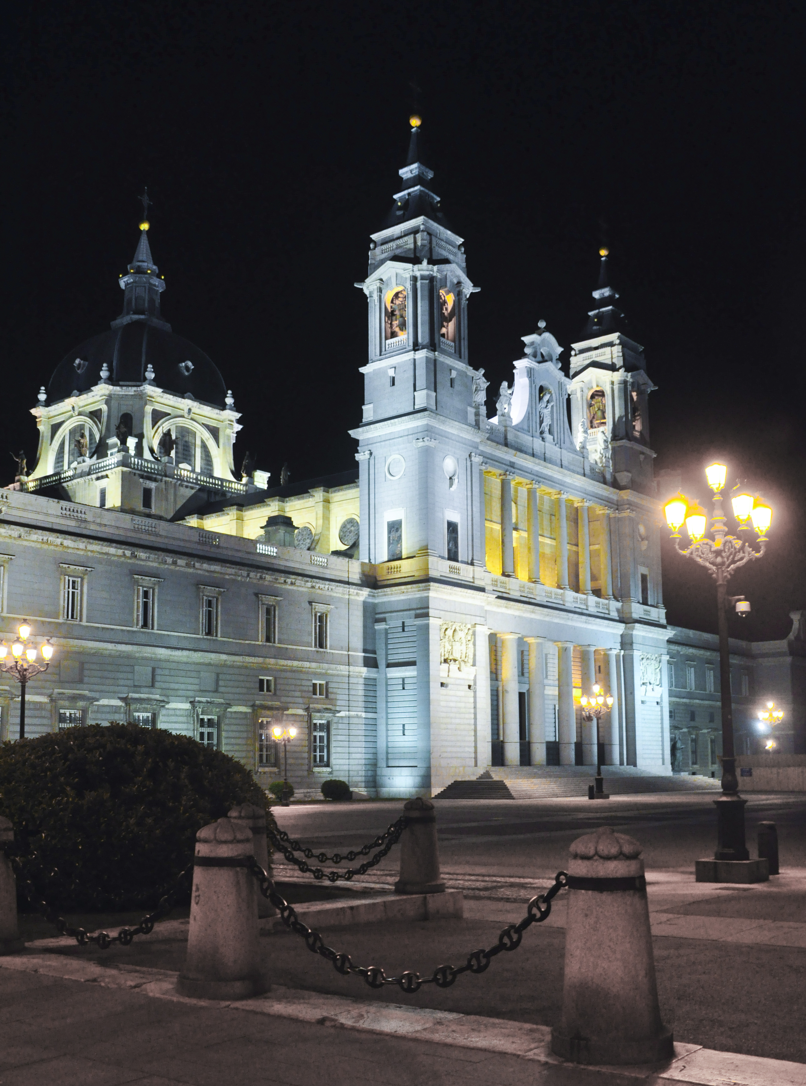 Almudena Cathedral at night